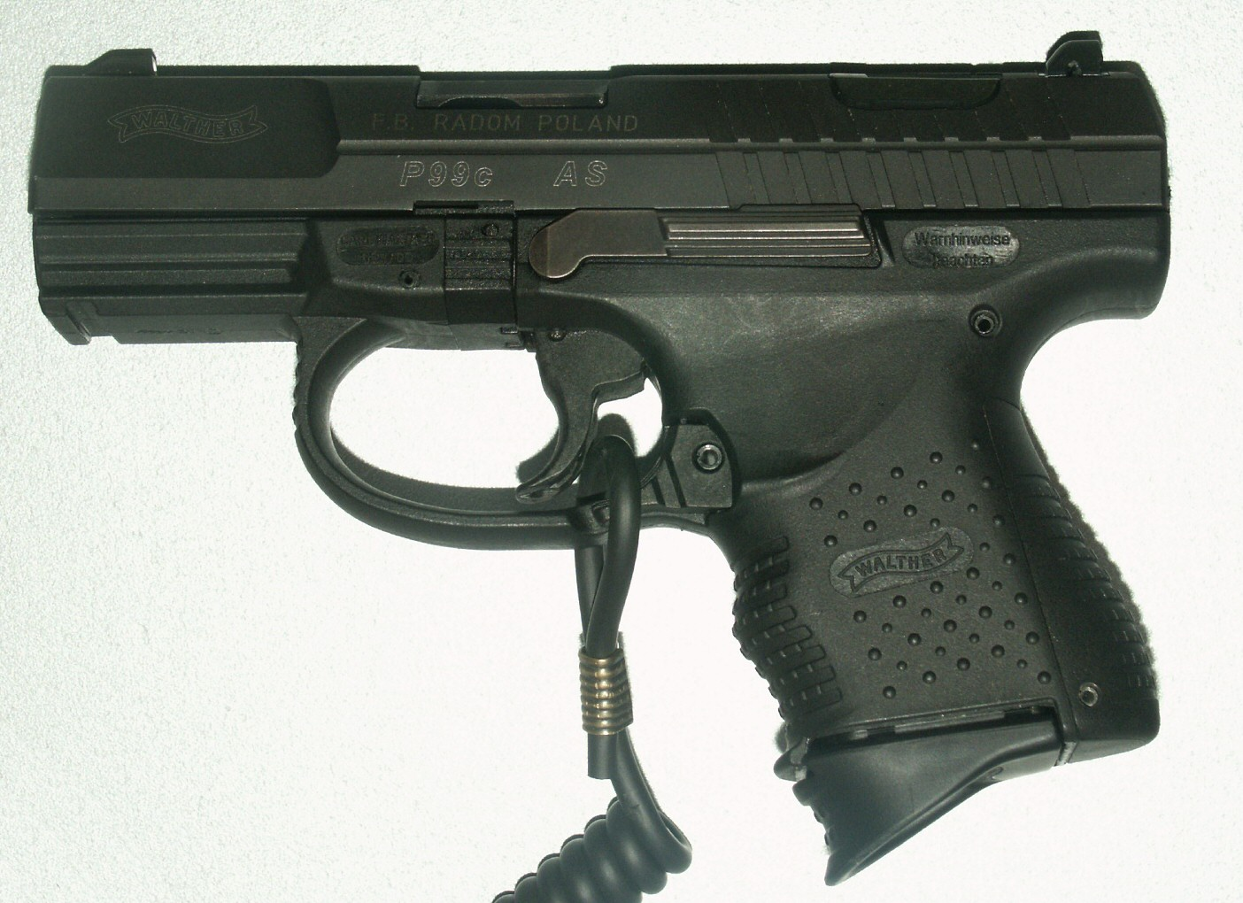 Walther P99c AS pistol manufactured by Fabryka Broni Łucznik - Radom, Poland (there are shadows around a trigger)